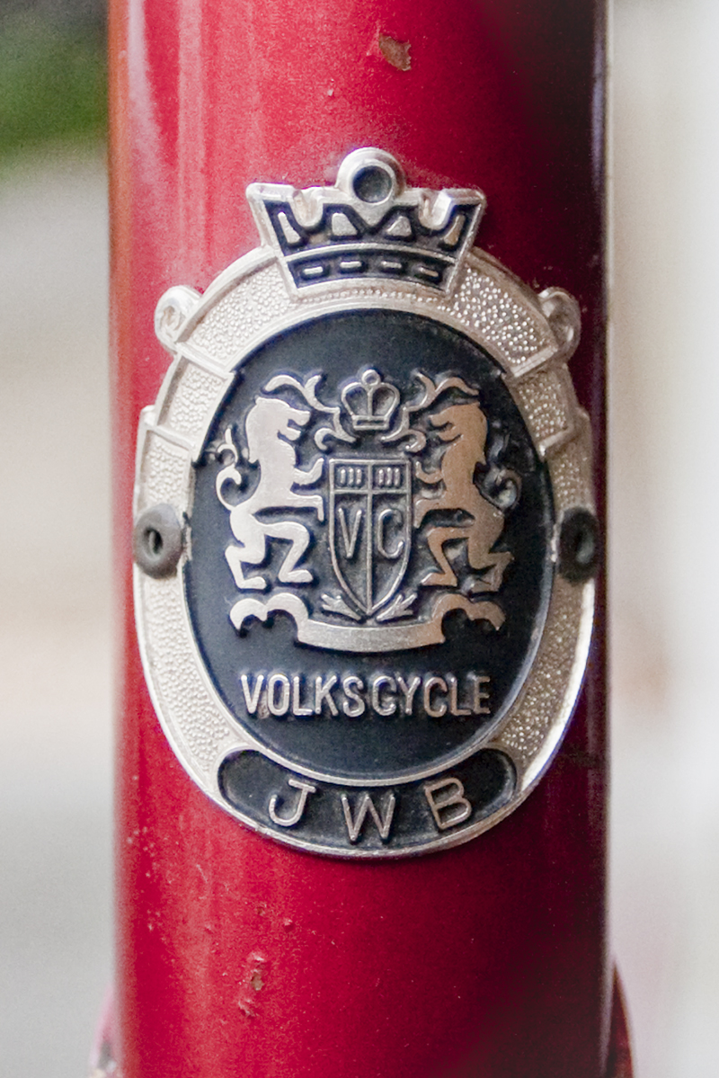 Volkscycle.